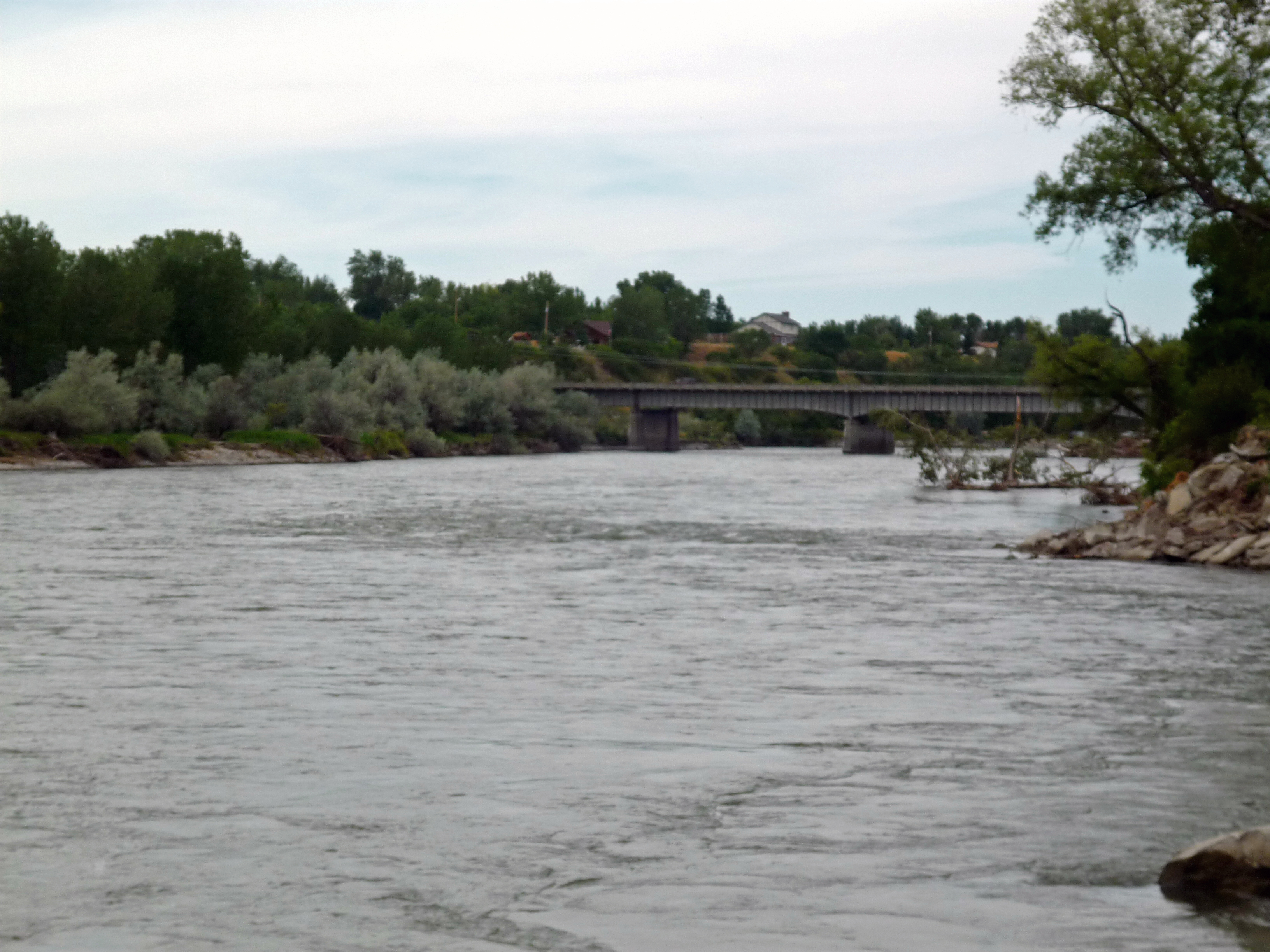 Yellowstone River near Huntley, Montana